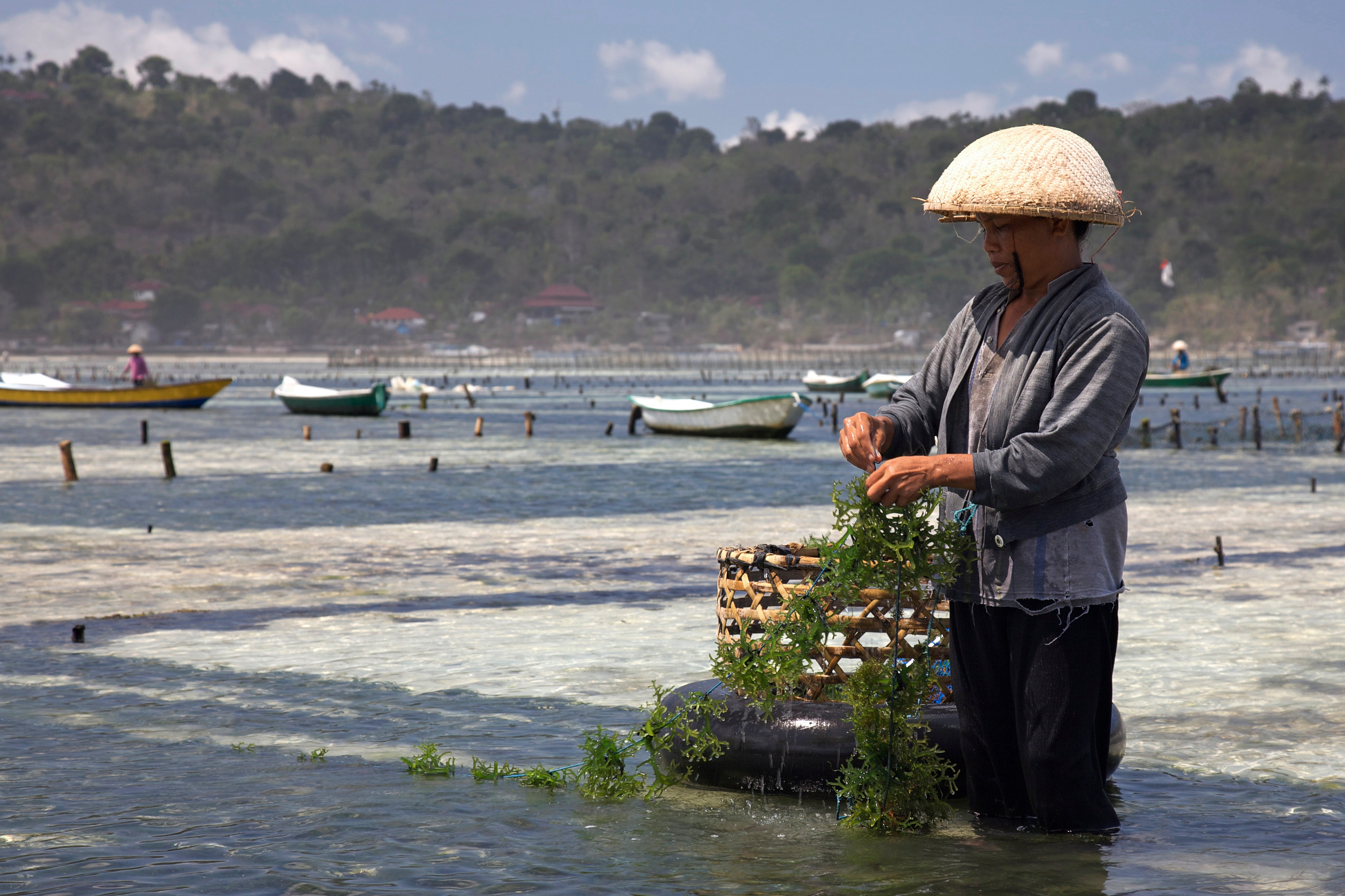 Edible seaweed farming on the small island of Nusa Lembongan, southeast of Bali, in Indonesia. The seaweed is growing on a rope. The bay on the coast is marked out by wooden posts into rectangular plots that are owned by different families. A boat is seen in some of the plots.